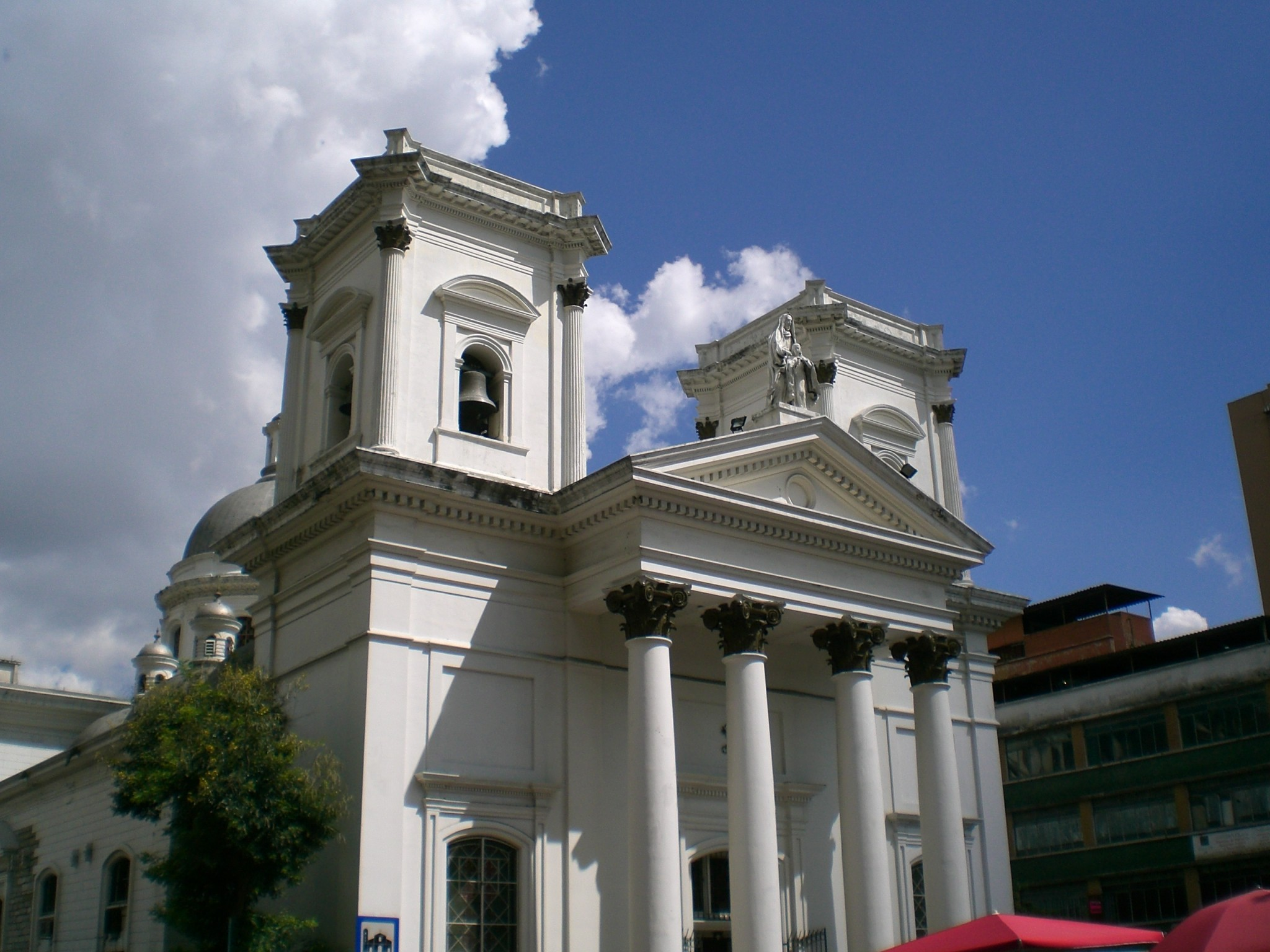 Santa Ana Church, Caracas, Venezuela.